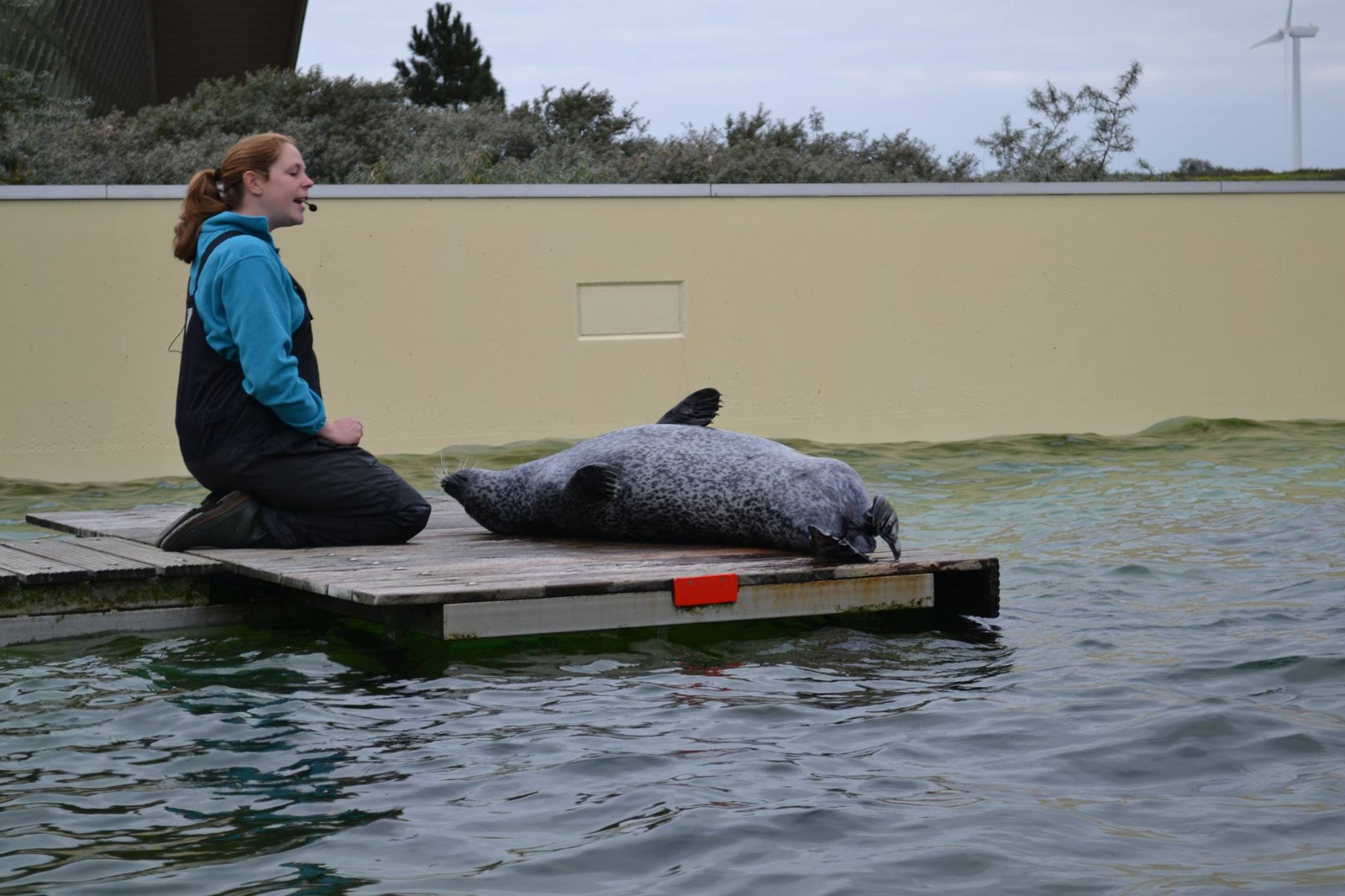 Zeehond Show Neeltje jans